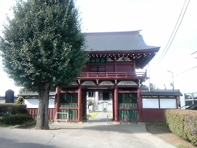 This is the Dōrin-ji Temple in Tsukuba, Ibaraki, Japan.